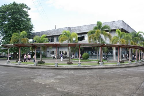 Unfinished administration building in SLSU